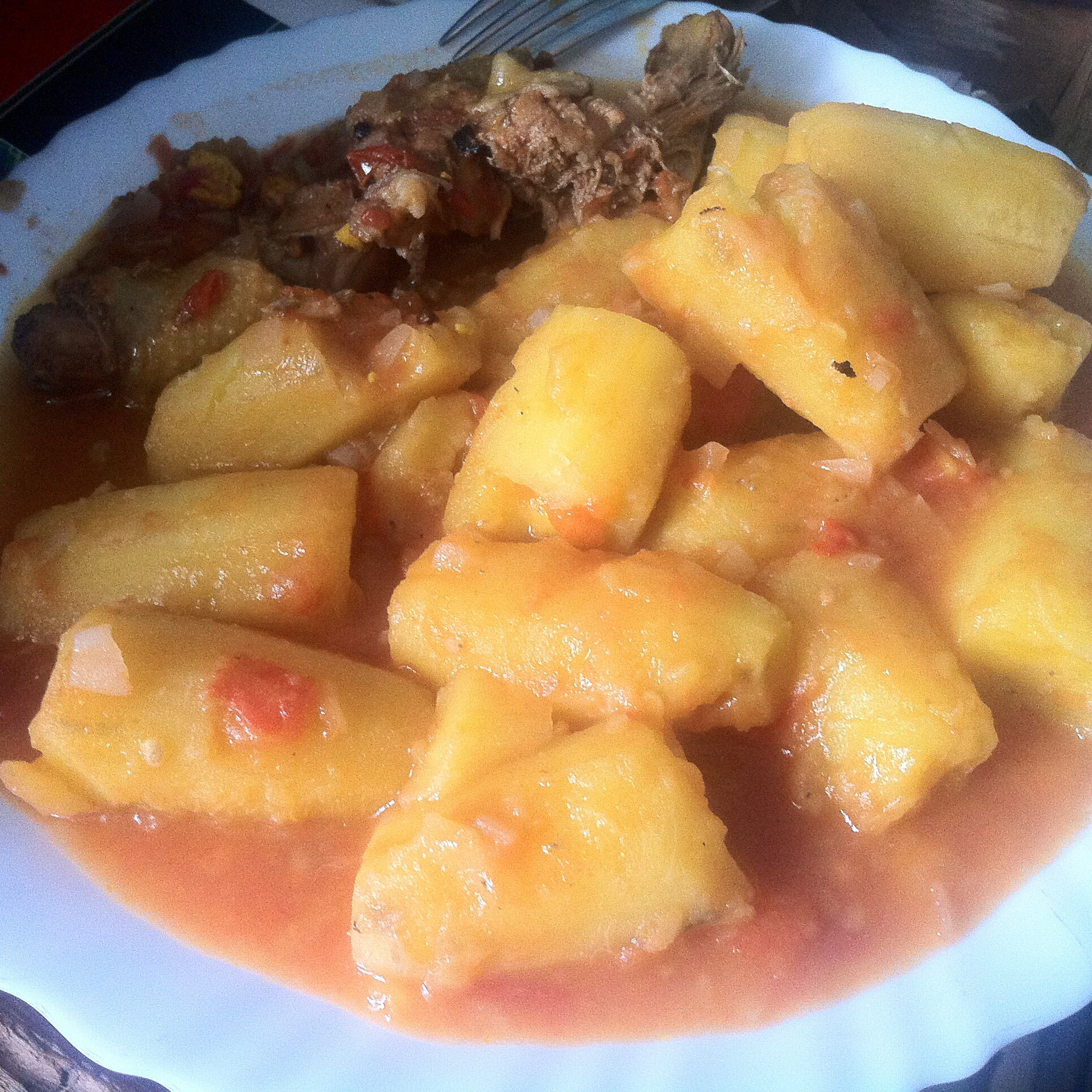 Matoke(ndizi) is a simple, mainly Ugandan but also Kenyan, meal prepared from peeling green bananas and boiling or steaming them until ready. A little oil and tomatoes and spices can be used to add flavor. It can be accompanied with any available stew including beef, beans, vegetables, groundnuts or chicken. This particular meal was of Matoke was accompanied with chicken stew(kuku). This is an image of food from Kenya